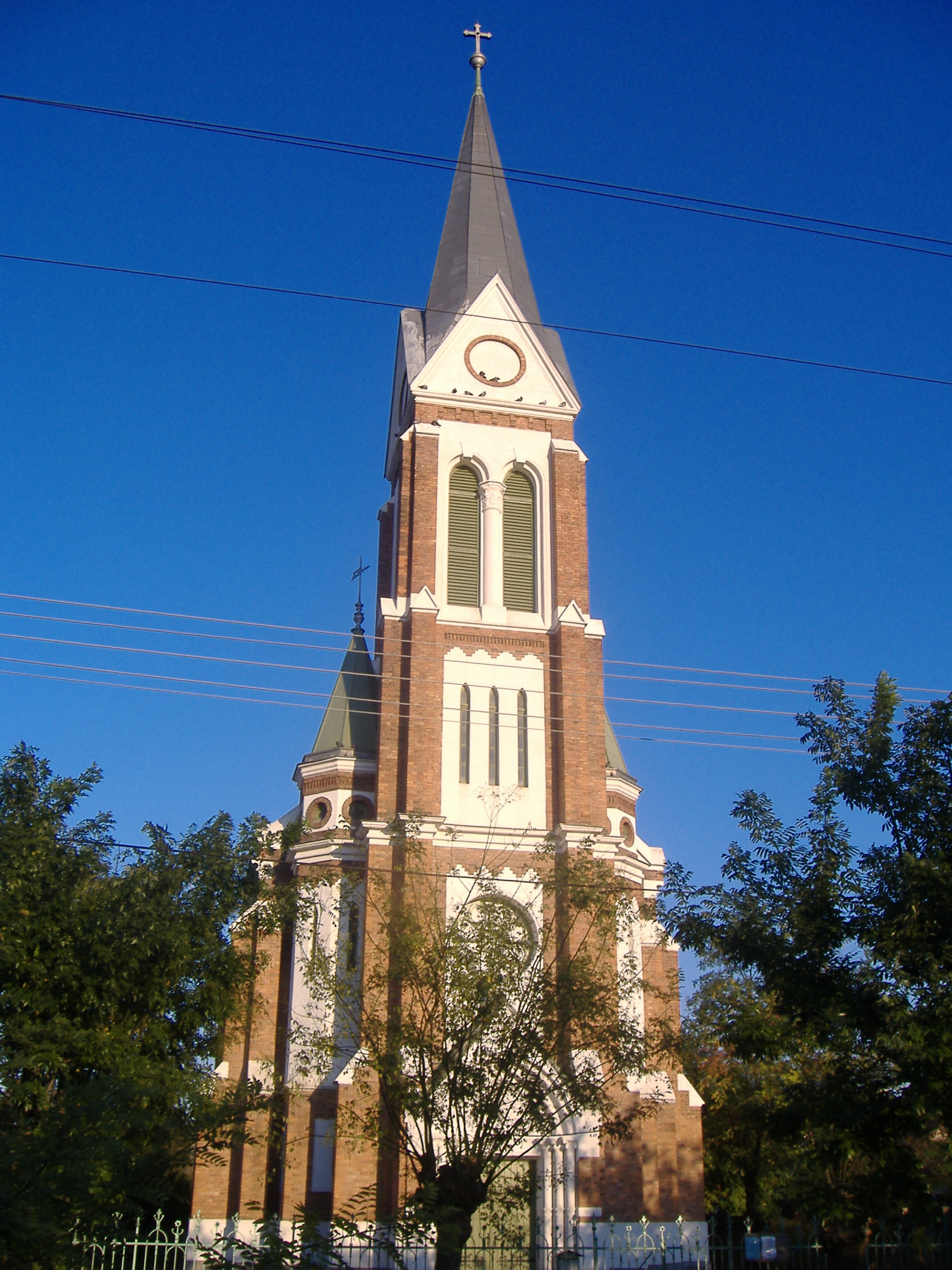 The Evangelical Church in Makó, Hungary.